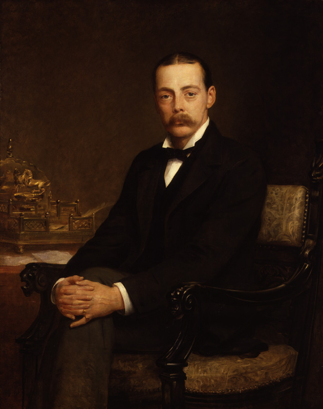 Lord Randolph Churchill (1849-1895)